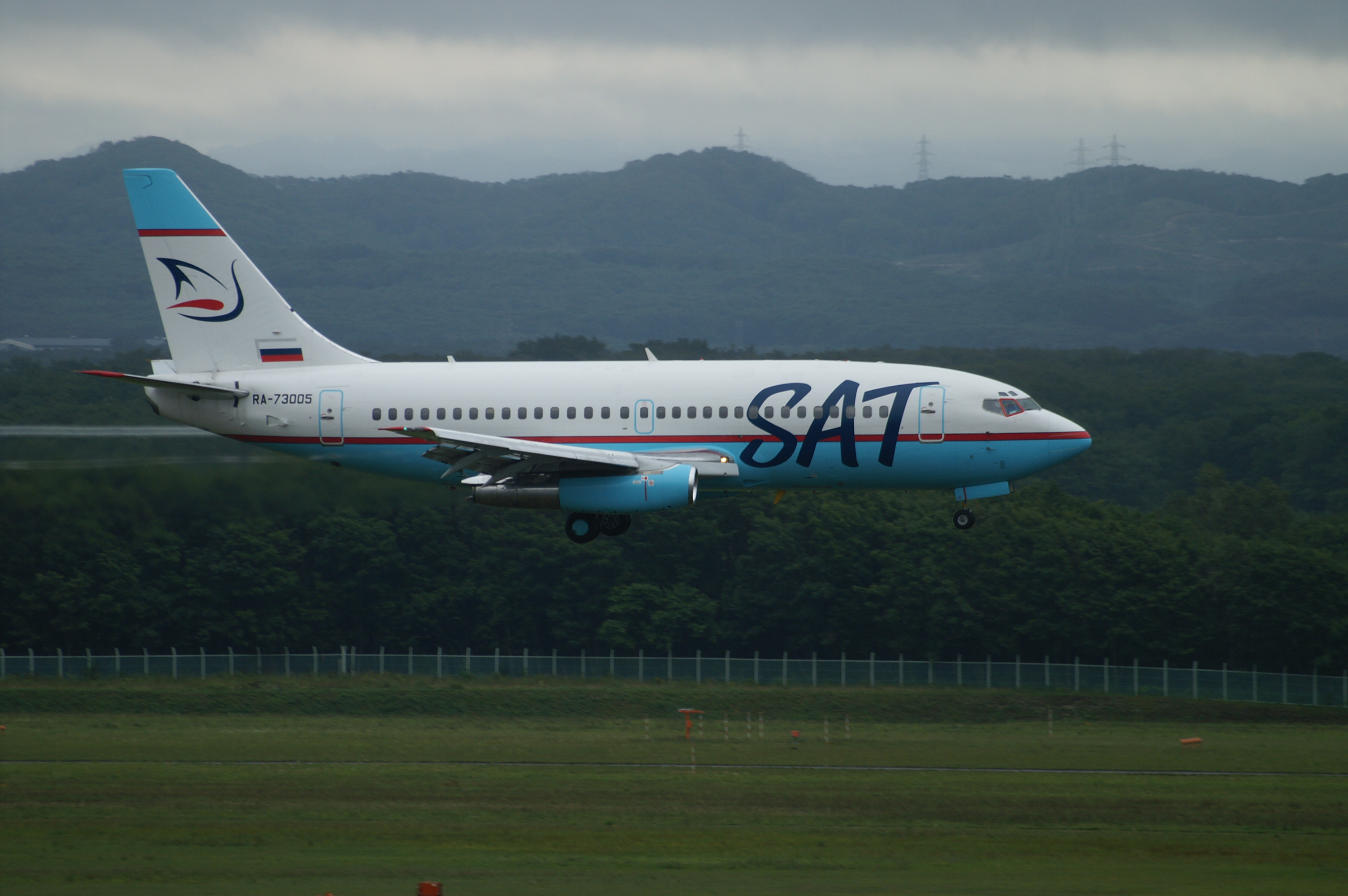 SAT Airlines (HZ/SHU) Boeing 737-205 (RA-73005) / サハリン航空（HZ/SHU）の Boeing 737-205 （RA-73005）。 ((2006/09/10 New Chitose Airport, Hokkaido, JAPAN)